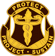 The U.S. Army Medical Research and Materiel Command's Distinctive Unit Insignia